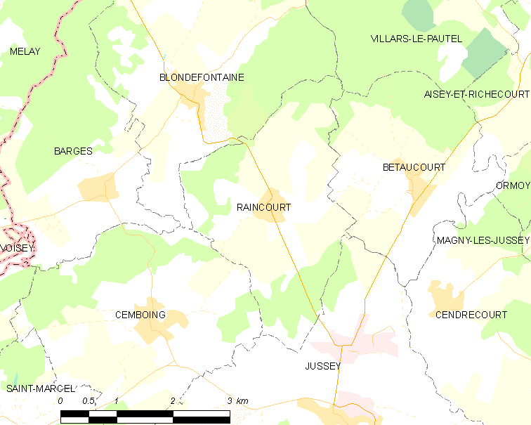 Map of French municipality